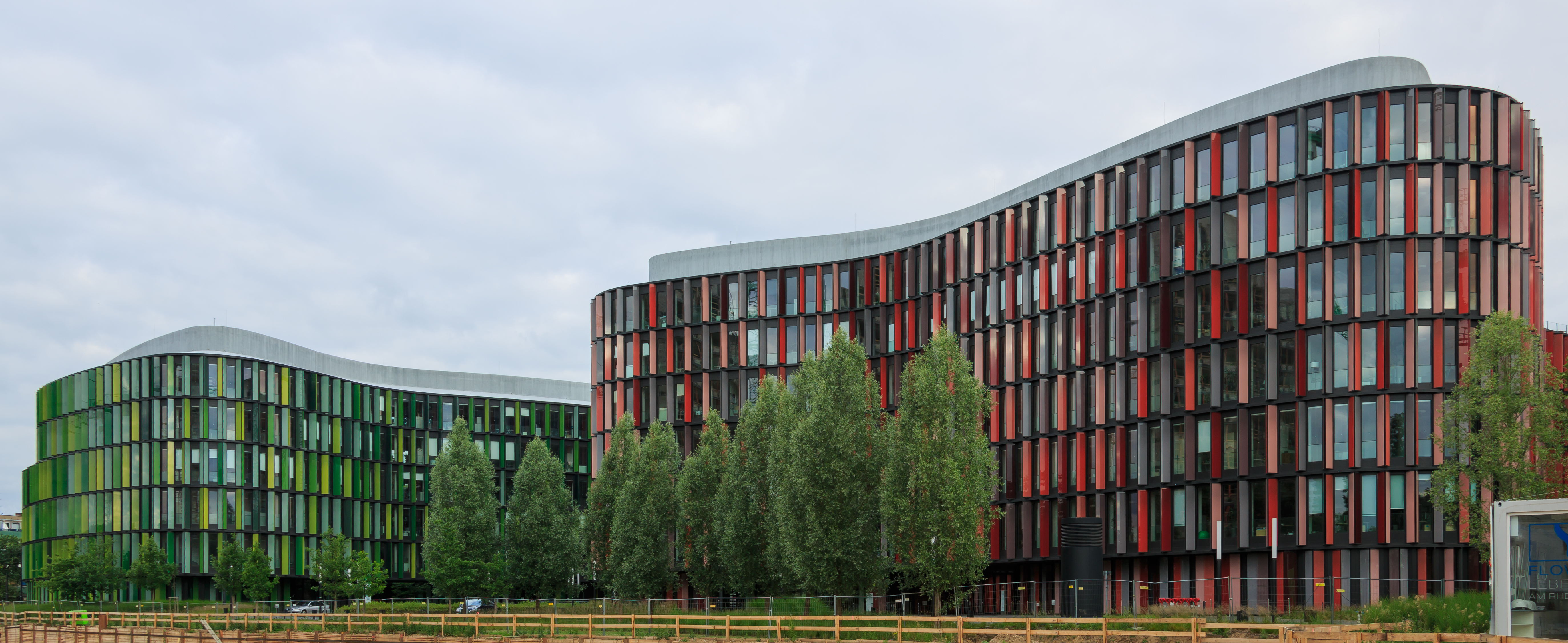 Cologne, Germany: Cologne Oval Offices. House Gustav-Heinemann-Ufer 72 & 74